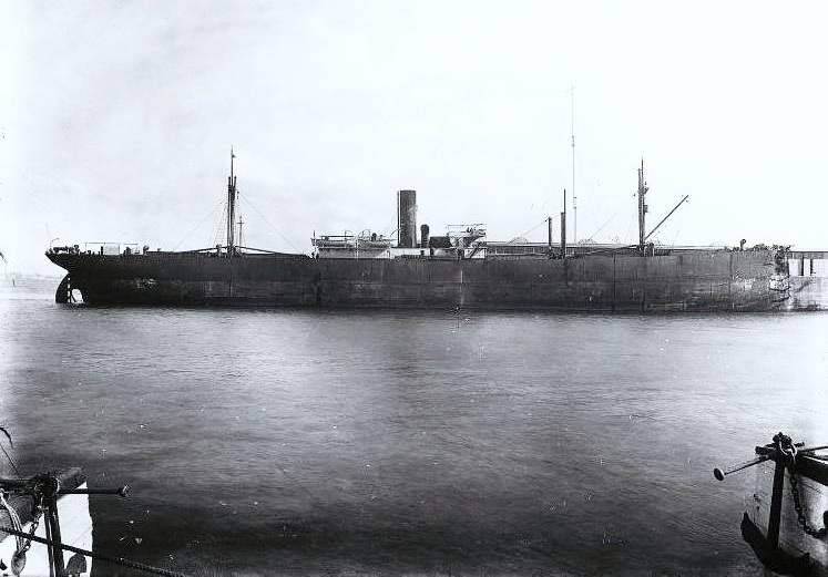 Photograph, Damaged S.S. "Storstad", Canadian Vickers, Montreal, QC, 1914, Wm. Notman & Son, Silver salts on glass - Gelatin dry plate process - 20 x 25 cm